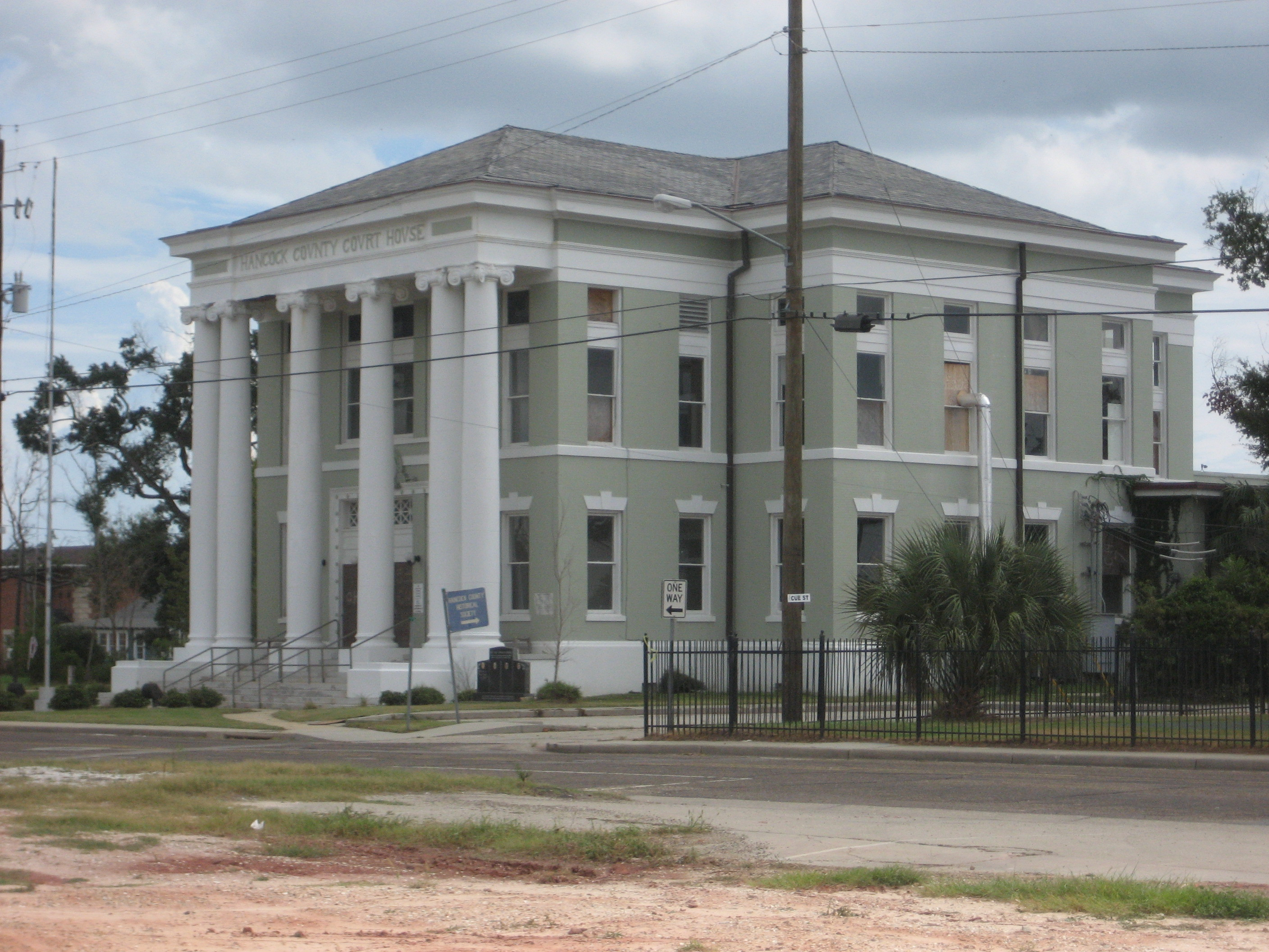 Hancock County Courthouse, Bay St. Louis, Mississippi. Located on the city block between Main, Gex, Court, and Cue Streets.